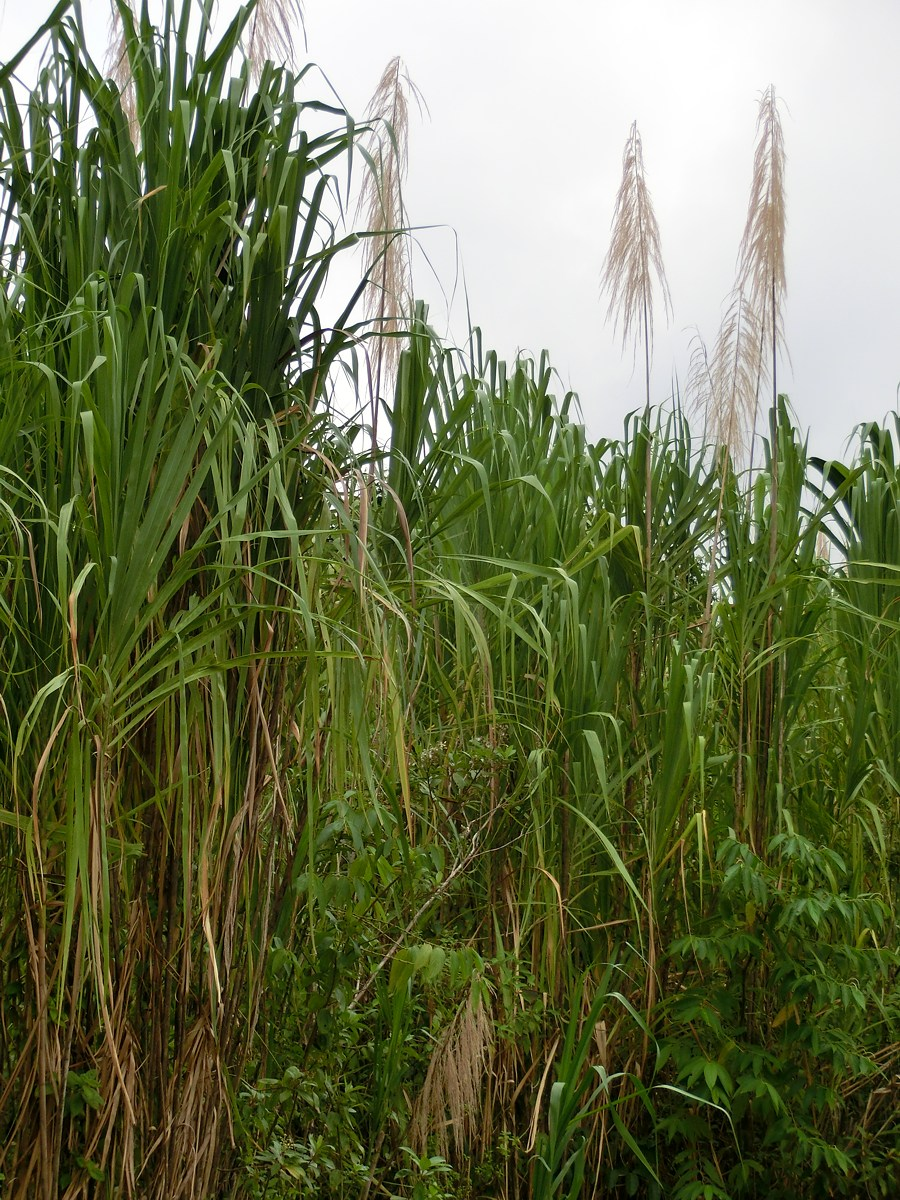 Gynerium sagittatum, fruiting, height ca 4-5 m. Costa Rica, Arenal Volcano National Park, near entrance.